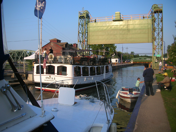 locking through the Erie Canal at Baldwinsville, New York.